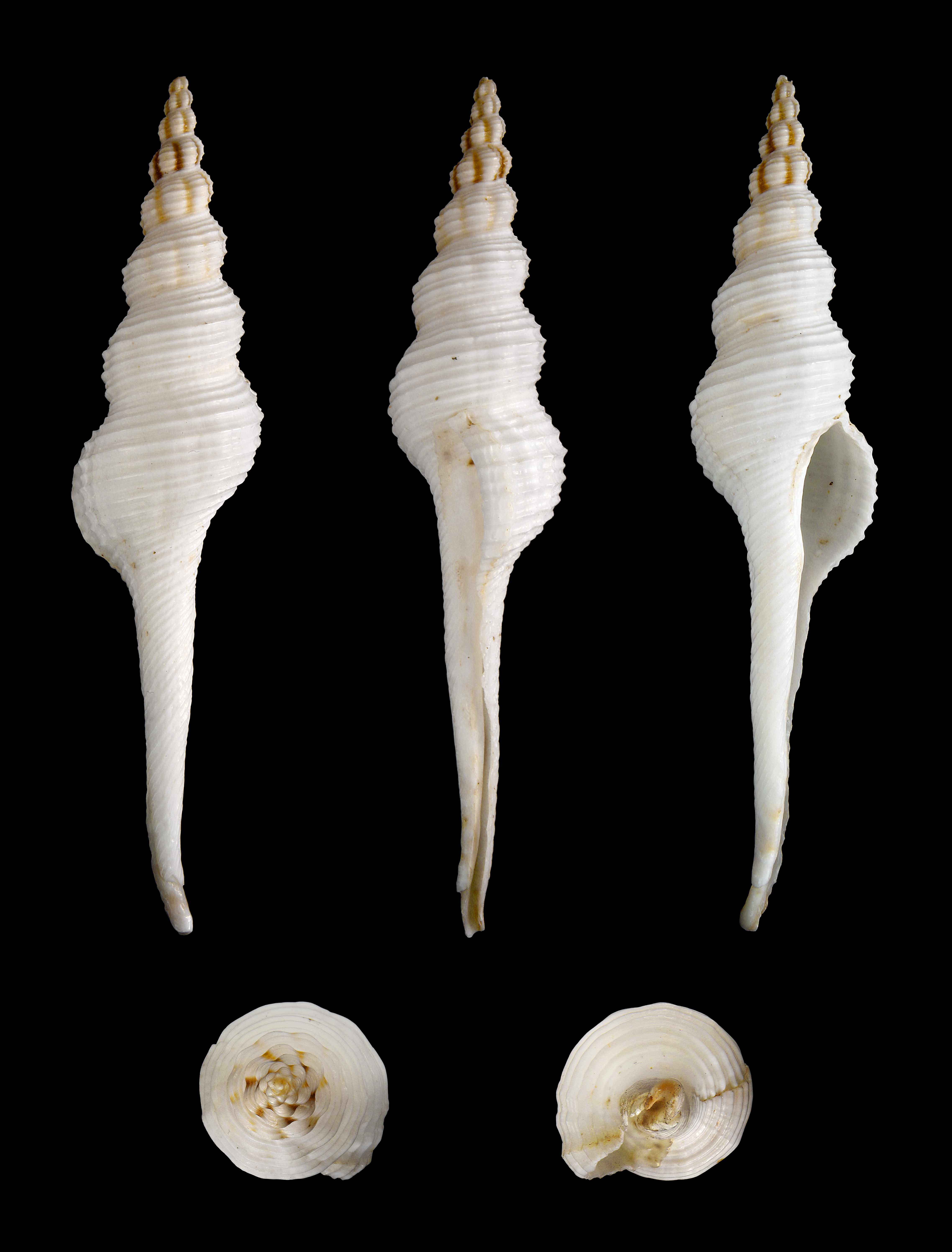 Long-tailed Spindle, Length 11.0 cm; Originating from the South China Sea; Shell of own collection, therefore not geocoded. Dorsal, lateral (right side), ventral, back, and front view.